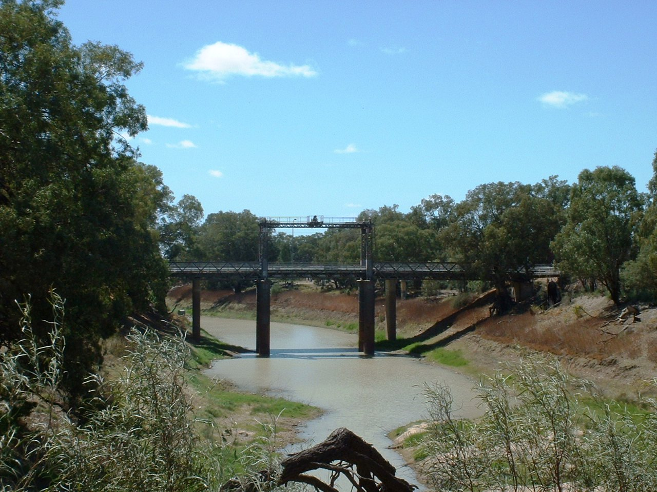 The bridge over the Darling River at Wilcannia, New South Wales, viewed from downriver.